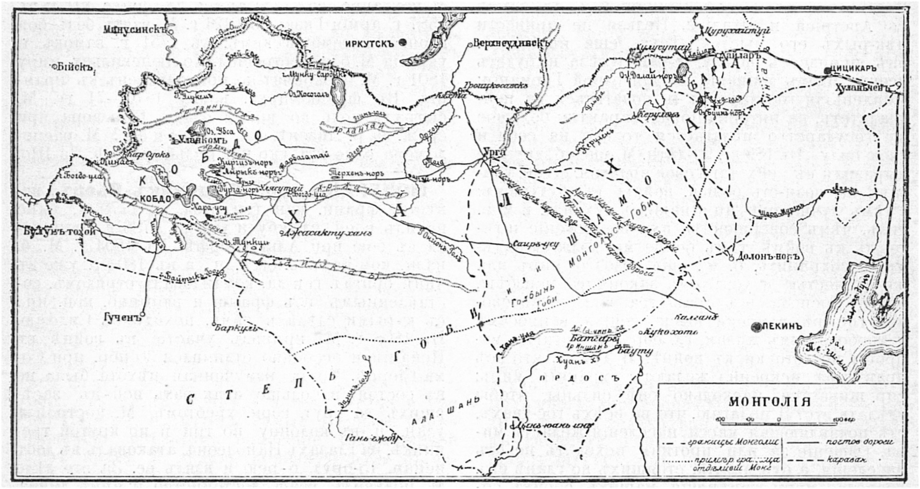 Old map of Mongolia